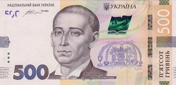 500 Ukrainian hryvnia in 2015 Obverse